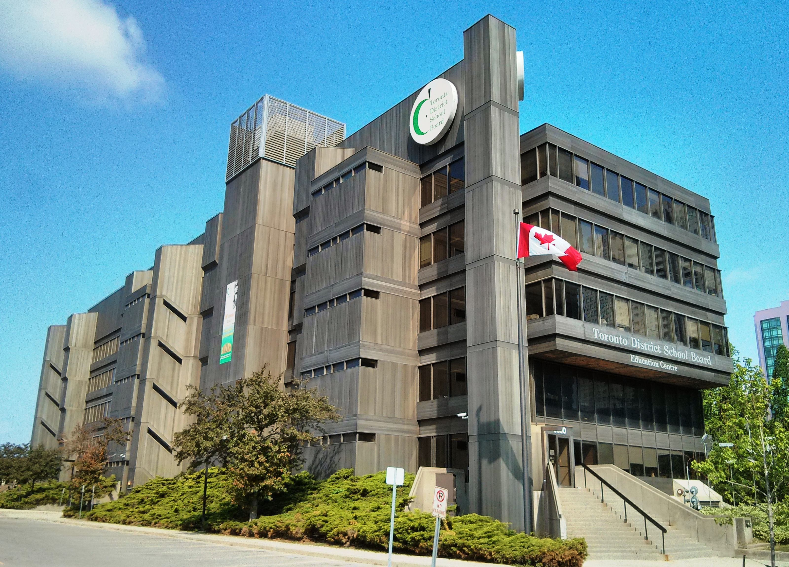 Toronto District School Board Education Centre - The head office of the Toronto District School Board at 5050 Yonge Street in North York, Ontario.